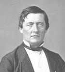 James Randolph Hubbell was a politician from Ohio.